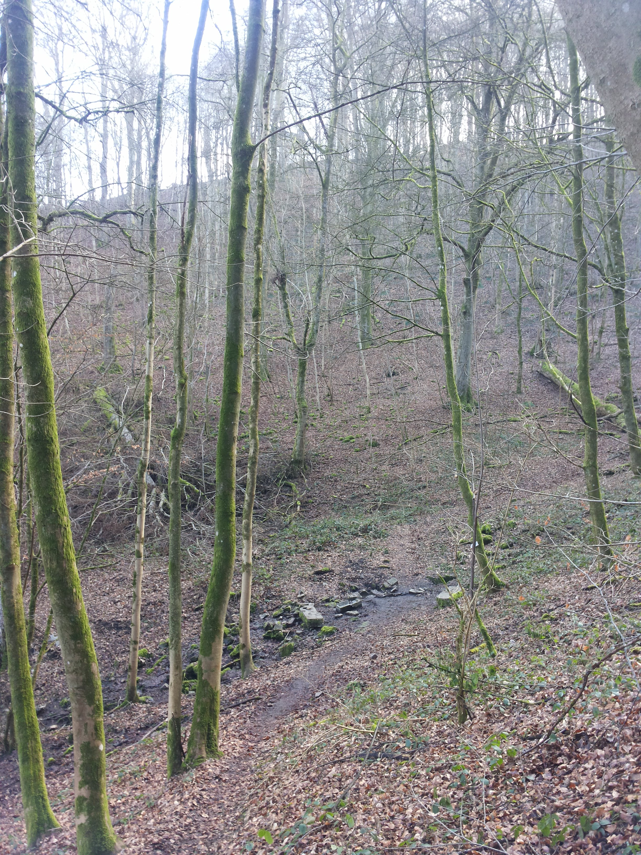 Source of Saint-Thibaut, Marcourt, Rendeux, Belgium